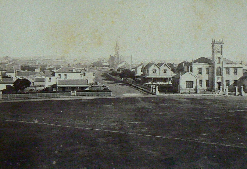 The establishment of the Grey Institute is closely associated with the introduction of organised education in the Cape Province under the administration of Sir George Grey. The buildings of the Grey Institute are in the neo-Gothic style. They were recently very carefully and sensitively restored by the current owners, the Mediterranean Shipping company This media shows a South African Protected Site with SAHRA file reference 9/2/073/0021.